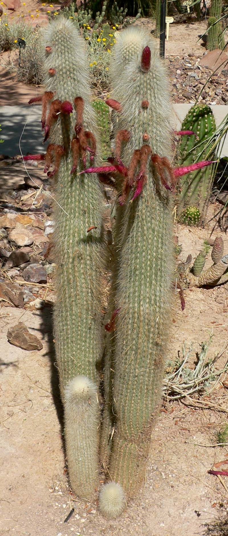 Photo of Cleistocactus strausii at the Springs Preserve garden in Las Vegas, Nevada